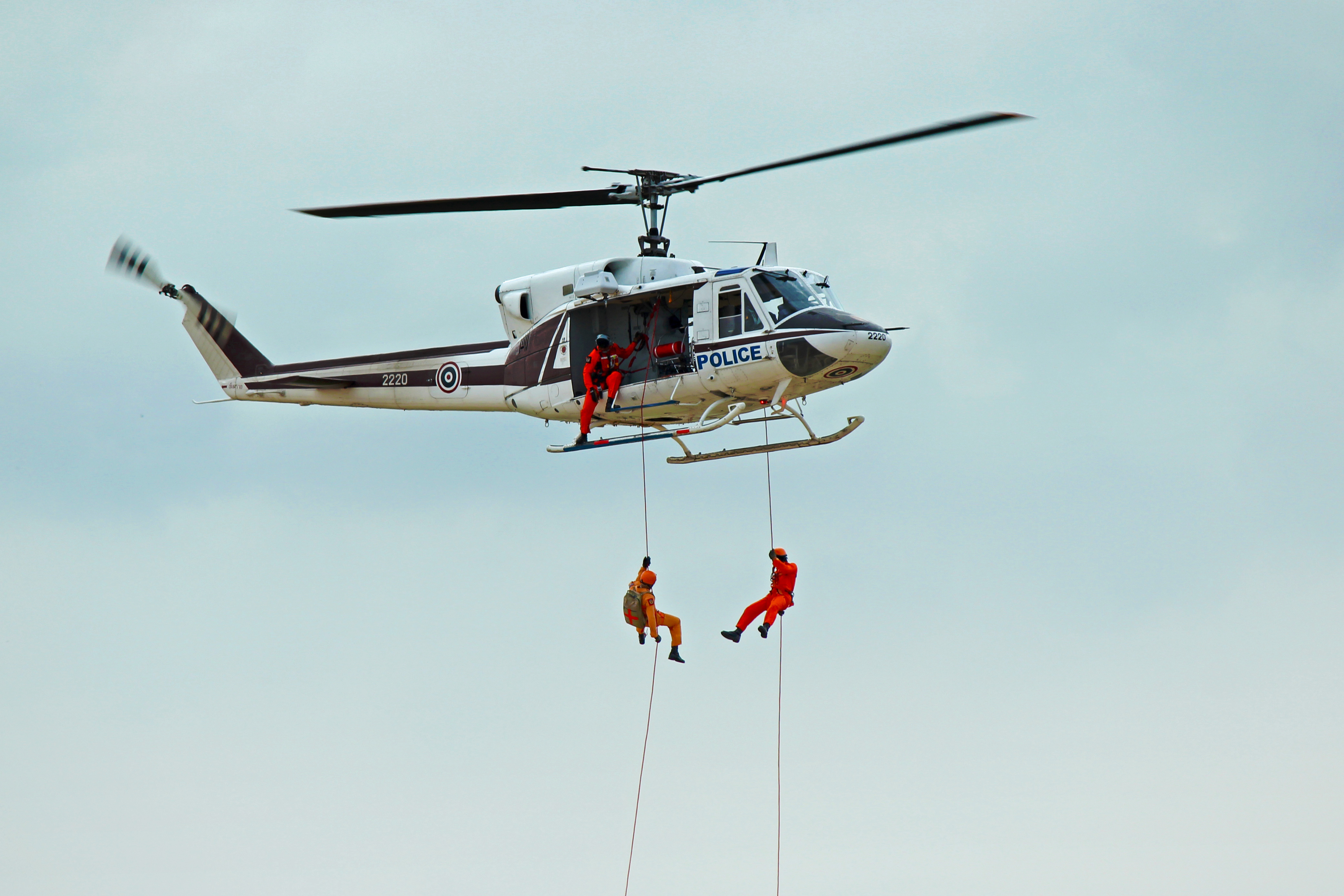 Royal Thai Police Helicopter Demonstration life saving